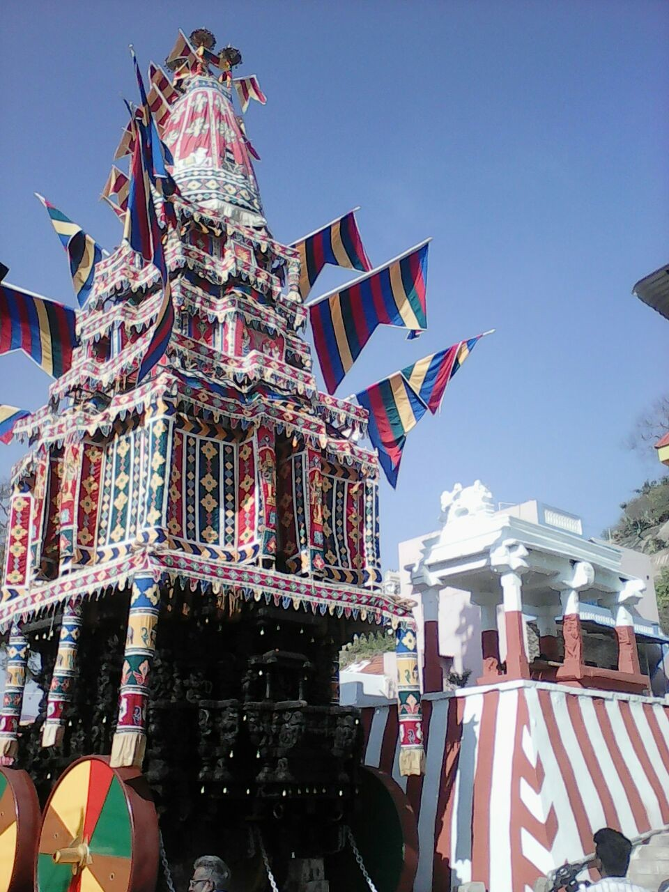 கிருட்டிணகிரி மாவட்டம் ஒசூர் சந்திரசூடேசுவரர் கோயில் தேருக்கும் தேர்முட்டி மண்டபமும்